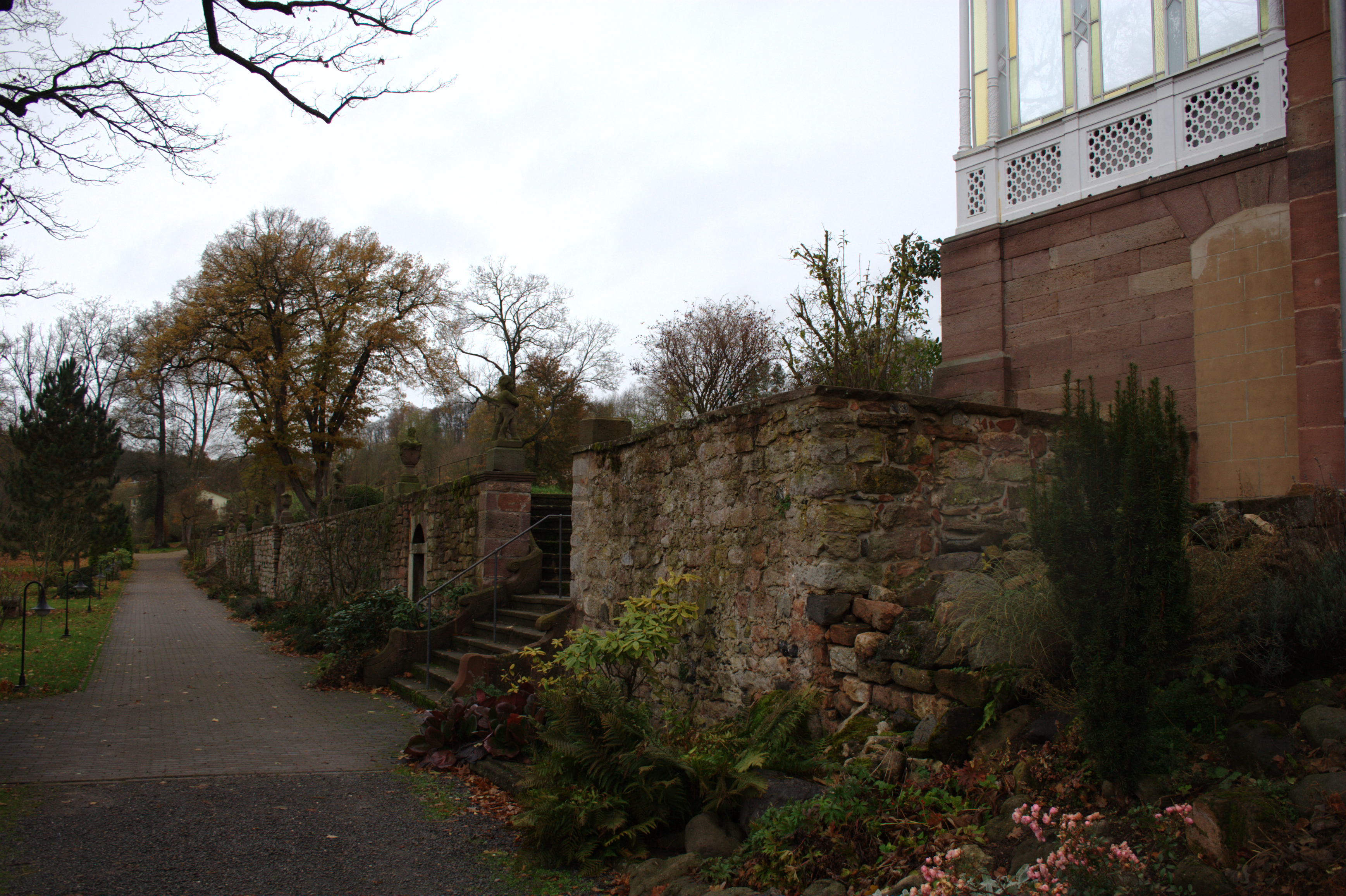 Castle (Park) in Stockhausen, Herbstein, Hessen, Germany